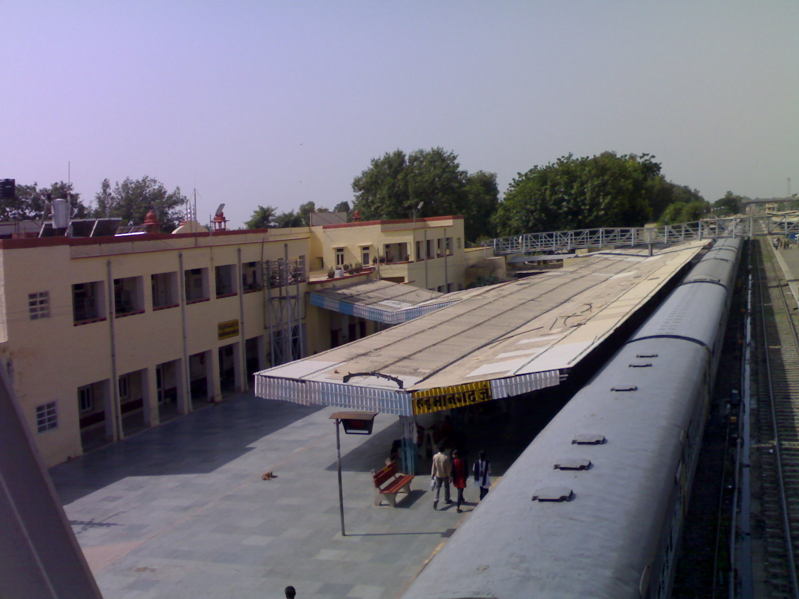 It is created by me (User:Shemaroo).It is photo of Hanumangarh railway station.It is a junction railway station.Shemaroo (talk) 11:22, 24 September 2010 (UTC)